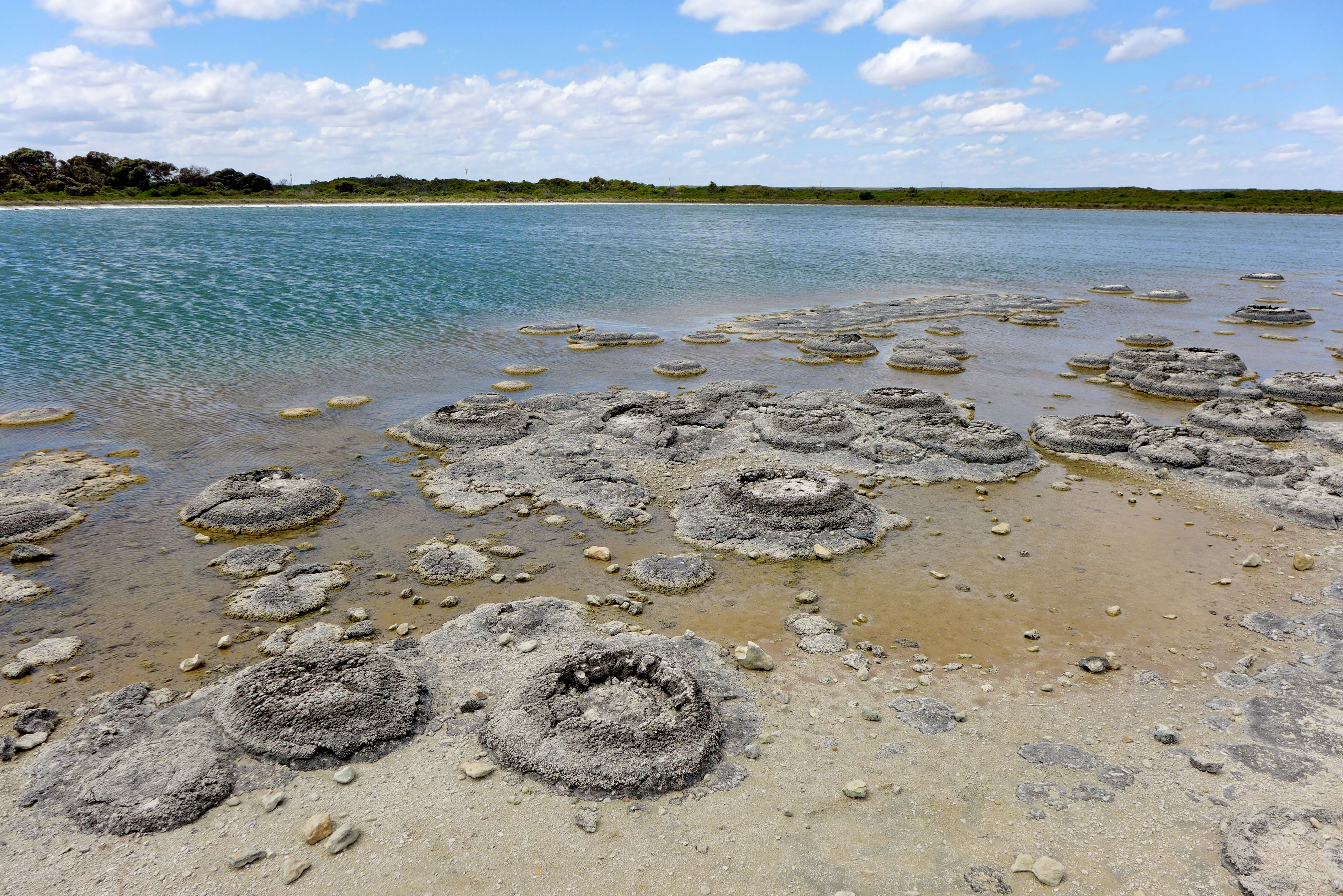 View of Stromatolites at Lake Thetis, on the outskirts of Cervantes, Western Australia.